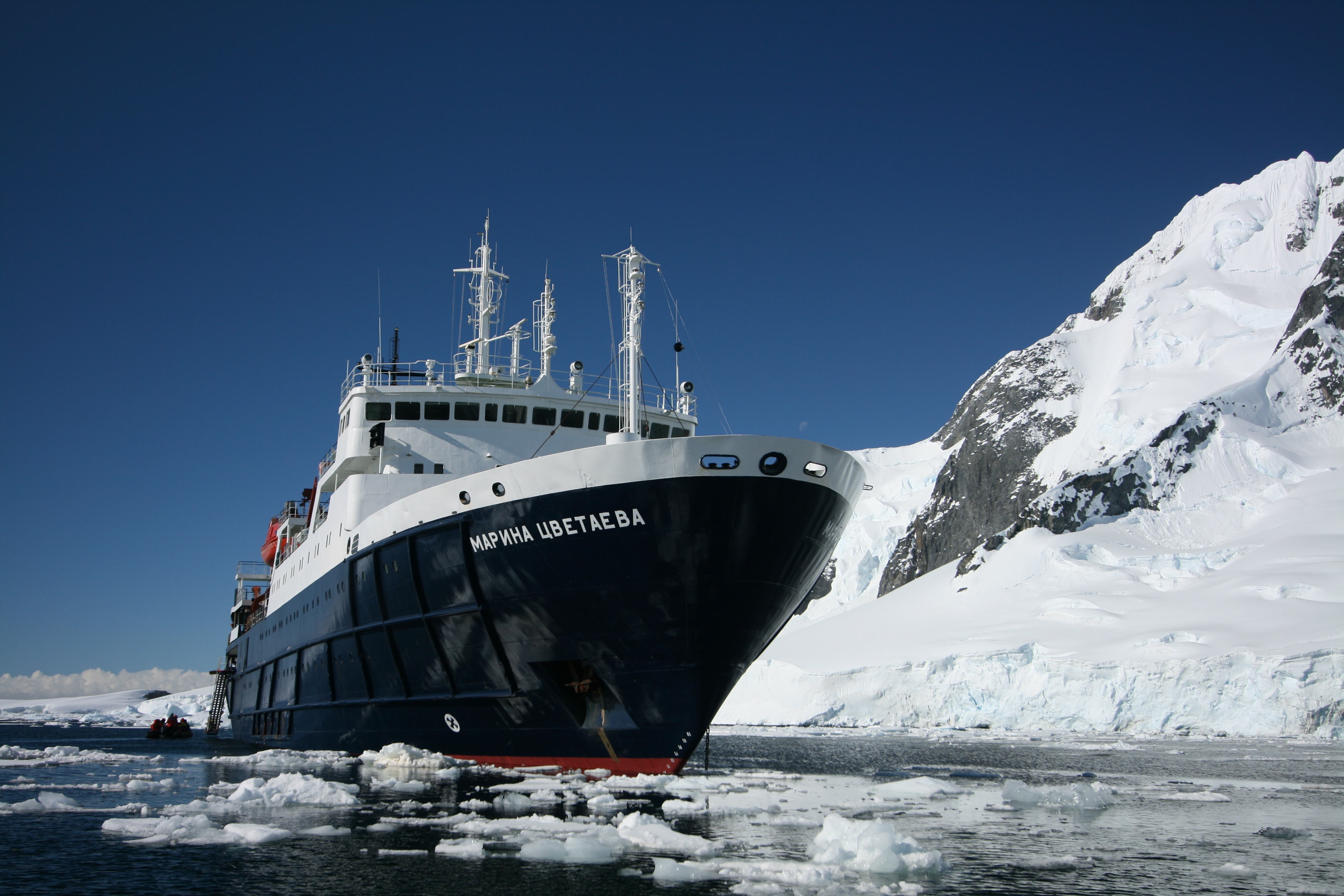 Photo of Marina Svetaeva 12/14/2010 By Allen Powell